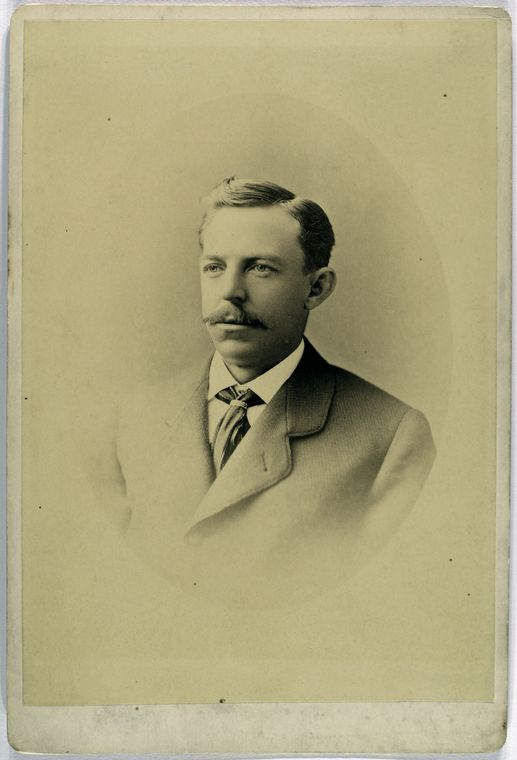 Ezra Sutton, Boston Beaneaters, 3rd Base, 1879